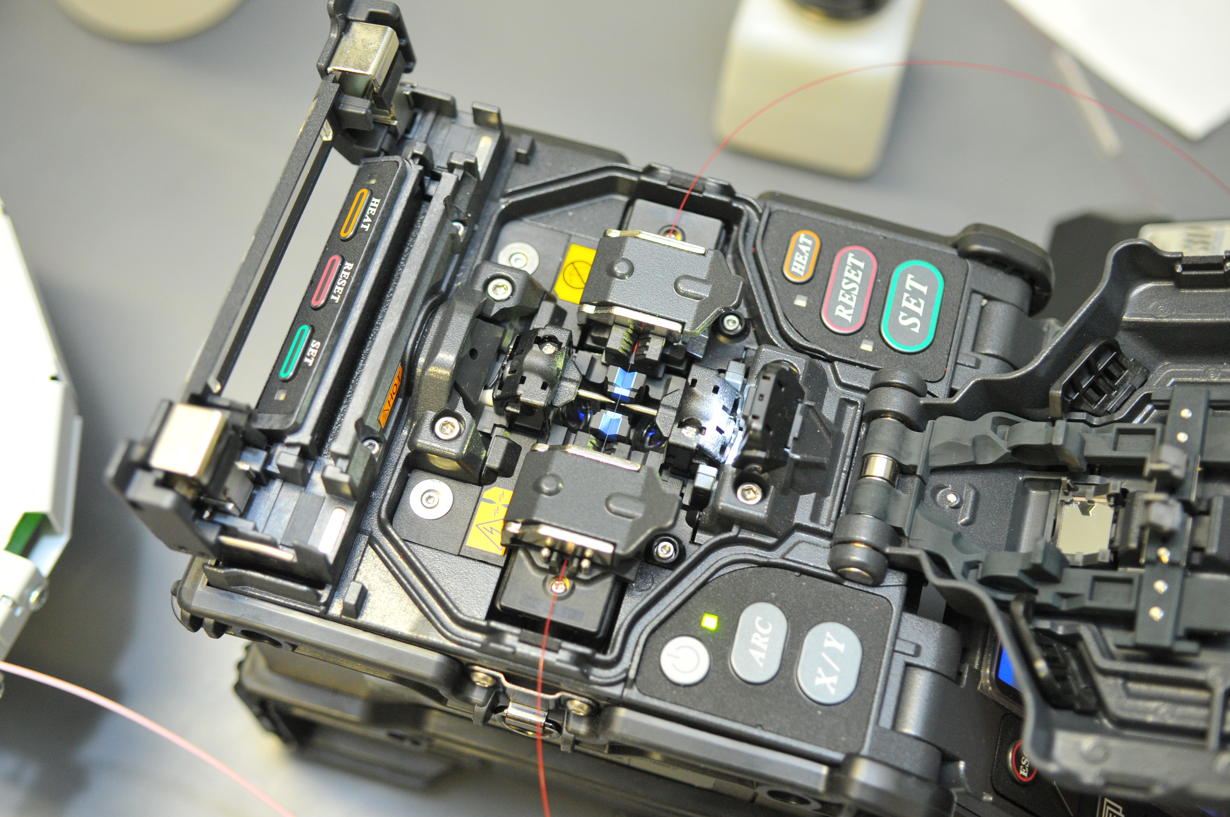 Two optical fibers just spliced in a Fujikura FSM-60S, shot during strenght-test